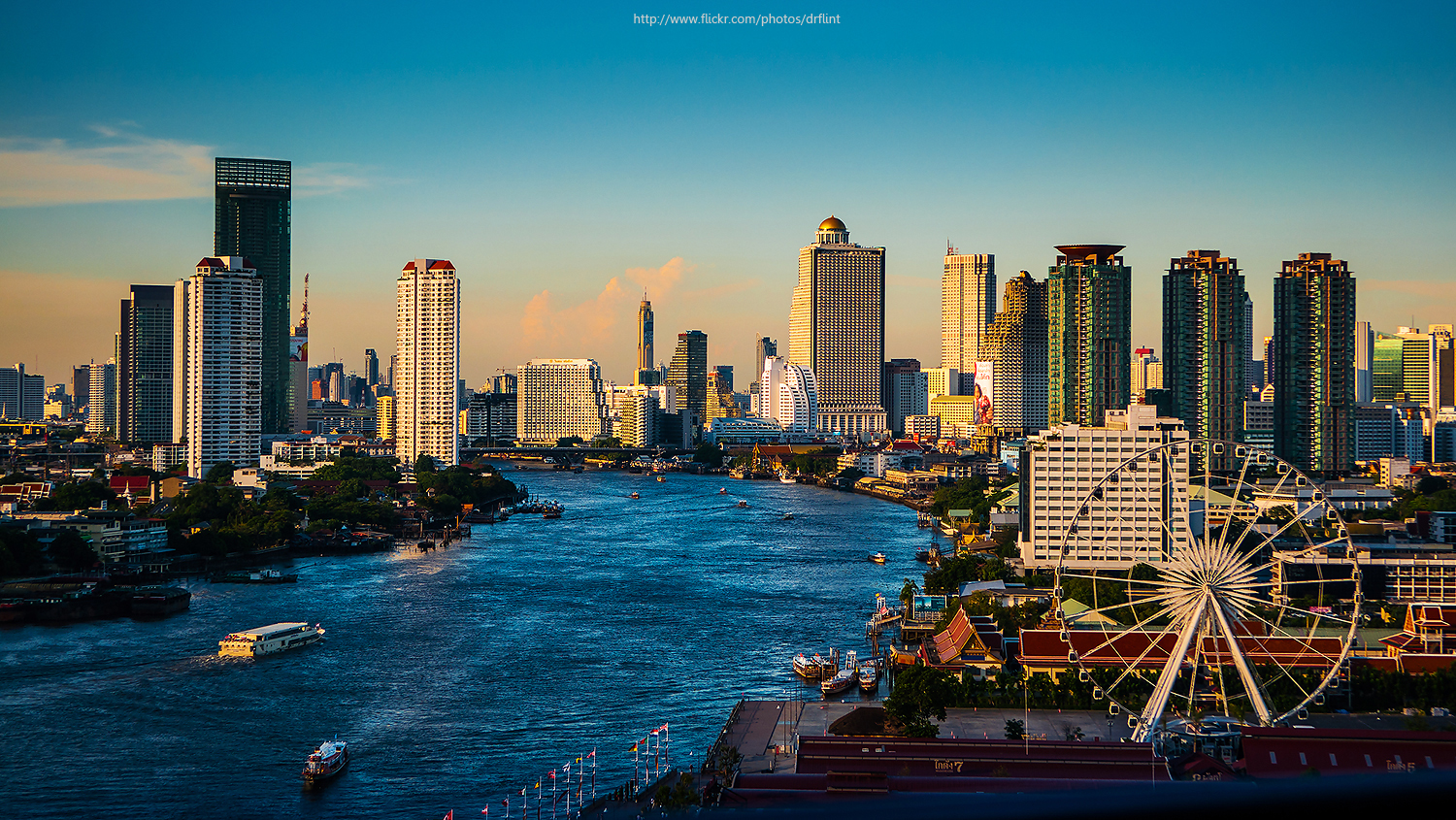 The Chao Phraya River in Bangkok, with the Asiatique Sky observation wheel and The River, State Tower and other skyscrapers